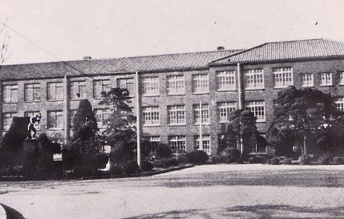 Keijo(Seoul) girl's Normal School